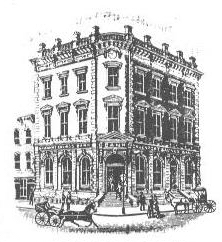 The original First National Bank building in Davenport, Iowa. It was the first bank in the United States to open under the National Bank Act. The third building to hold that name in Davenport is listed on the National Register of Historic Places.